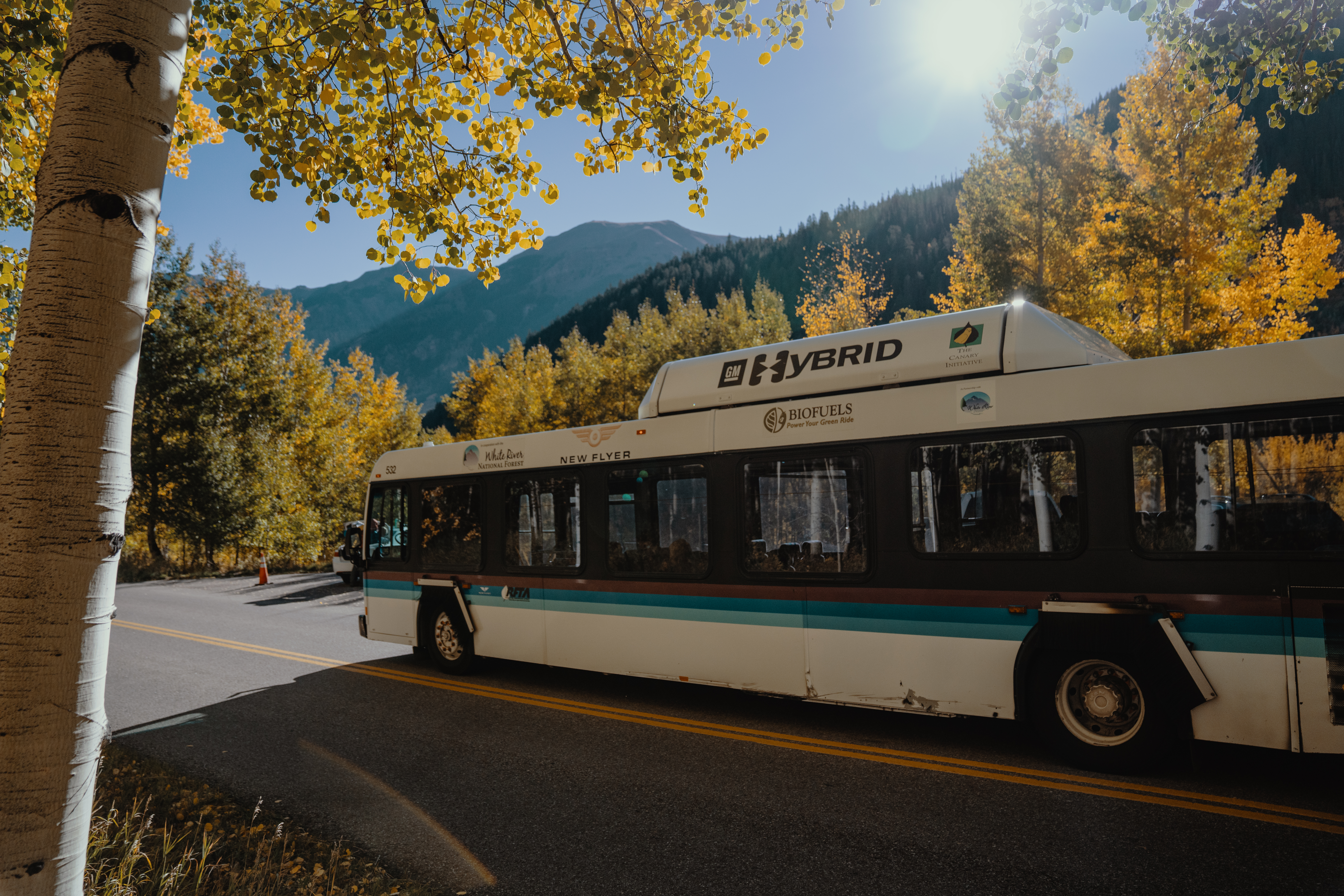 A bus brings visitors to and from the iconic Maroon Bells in the mountains of colorado near Aspen on an autumn morning. -- (c) 2018 Tony Webster +1 (202) 930-9200